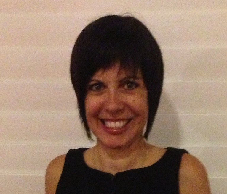 Paula Barrett Portrat Photo.